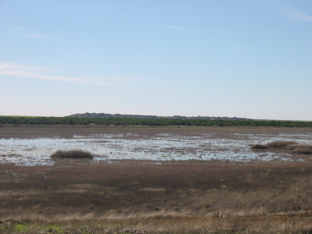 Lagunas(lakes) de Puebla de Beleña at Gudalajara. Ramsar wetland